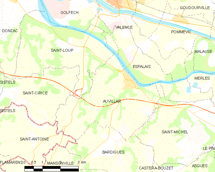 Map of French municipality Auvillar